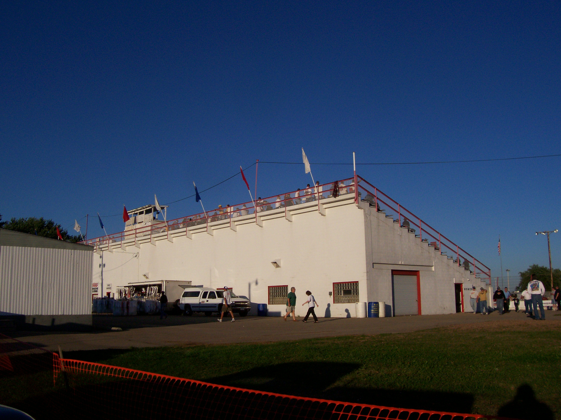 The grandstands at the Dodge County, Wisconsin fairgrounds before a USAC midget car show.